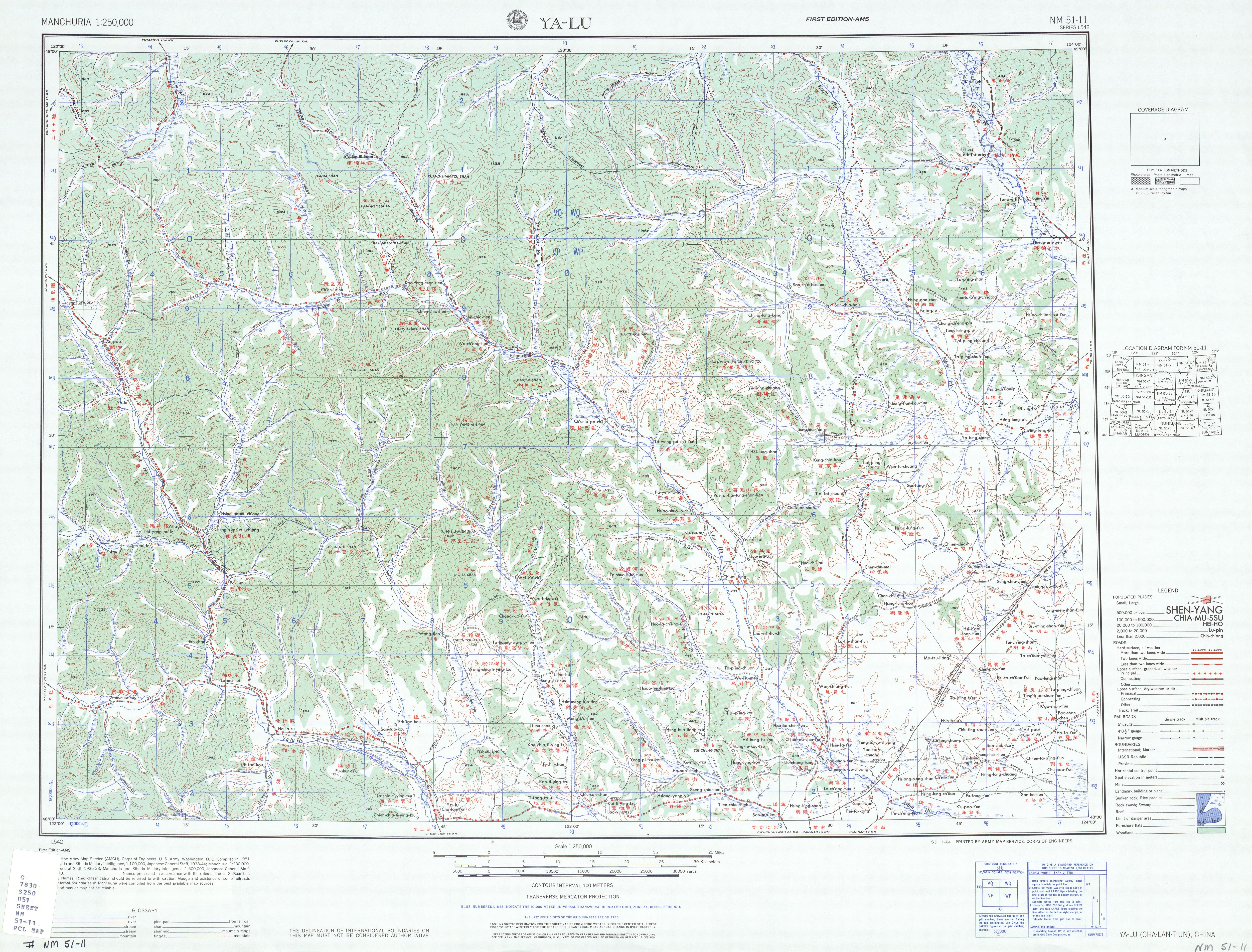 Manchuria AMS Topographic Maps